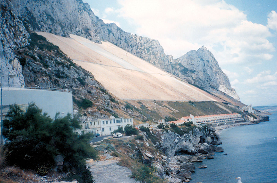 A significant proportion of Gibraltar's water is obtained from sloping rock catchments on the Rock. At the foot of the slopes, collecting channels drain into pipes which lead to tanks excavated inside the rock.